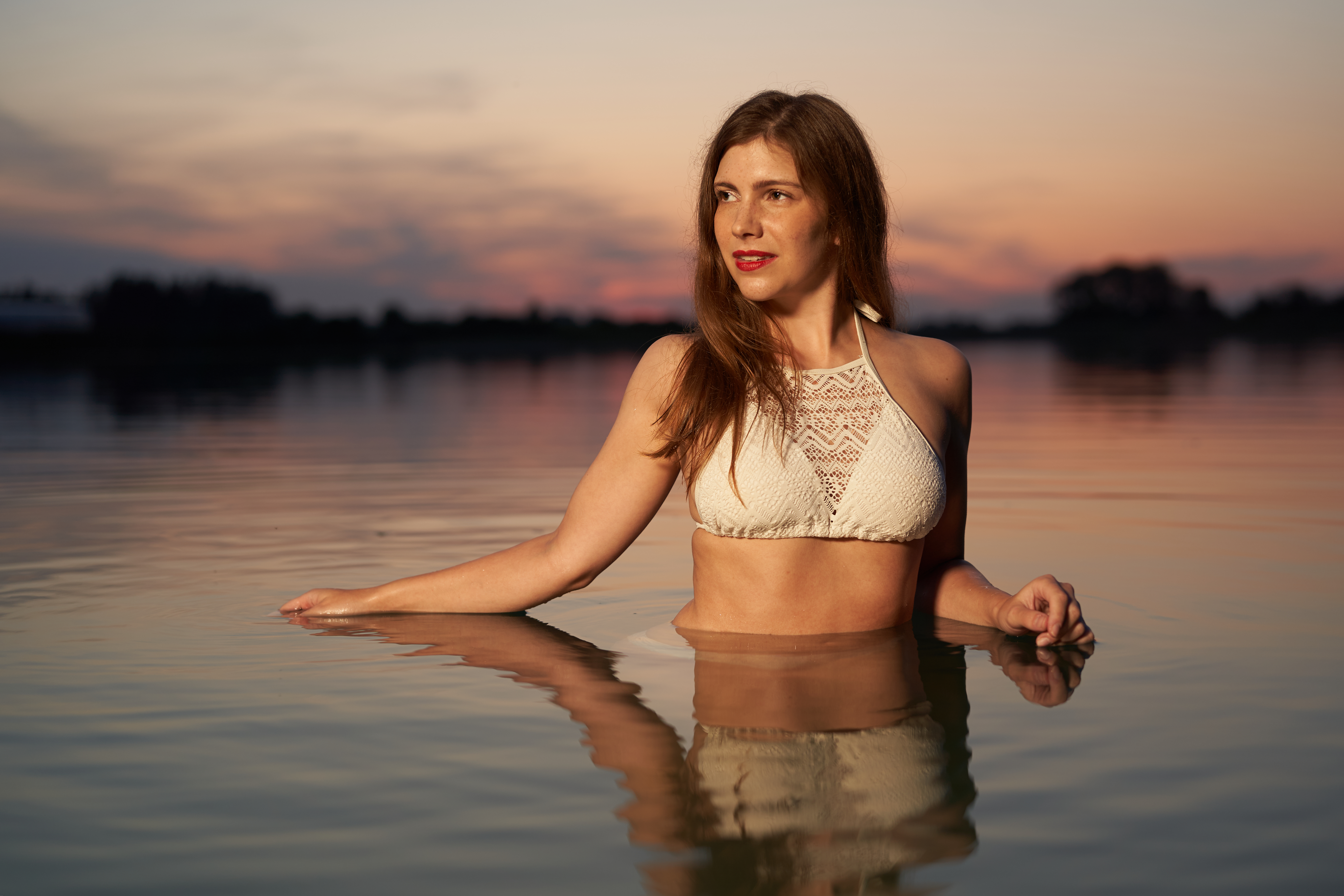 13th and final of a series of selected Images taken during the golden hour to sunset. Image taken with flash in small octobox and 1/2 CTO colour gel. White balance set to shade. Taken in the north east end of Munich in late August of 2019 at 20:10:38. Modelled by Marina Daschner.